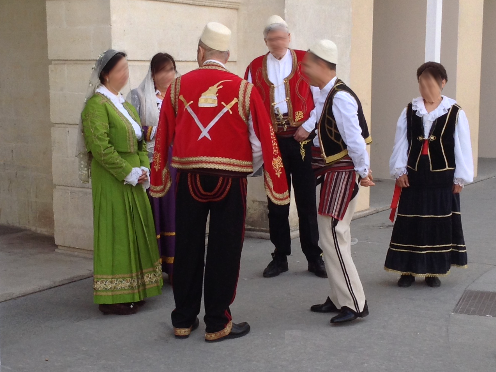 Arbëreshë costume of San Marzano di San Giuseppe